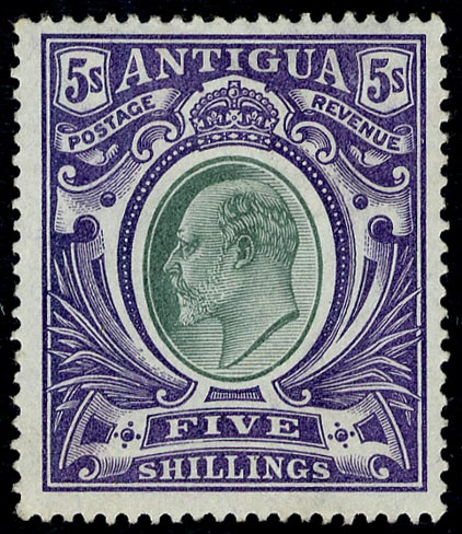 An Antigua five shilling stamp of 1903.